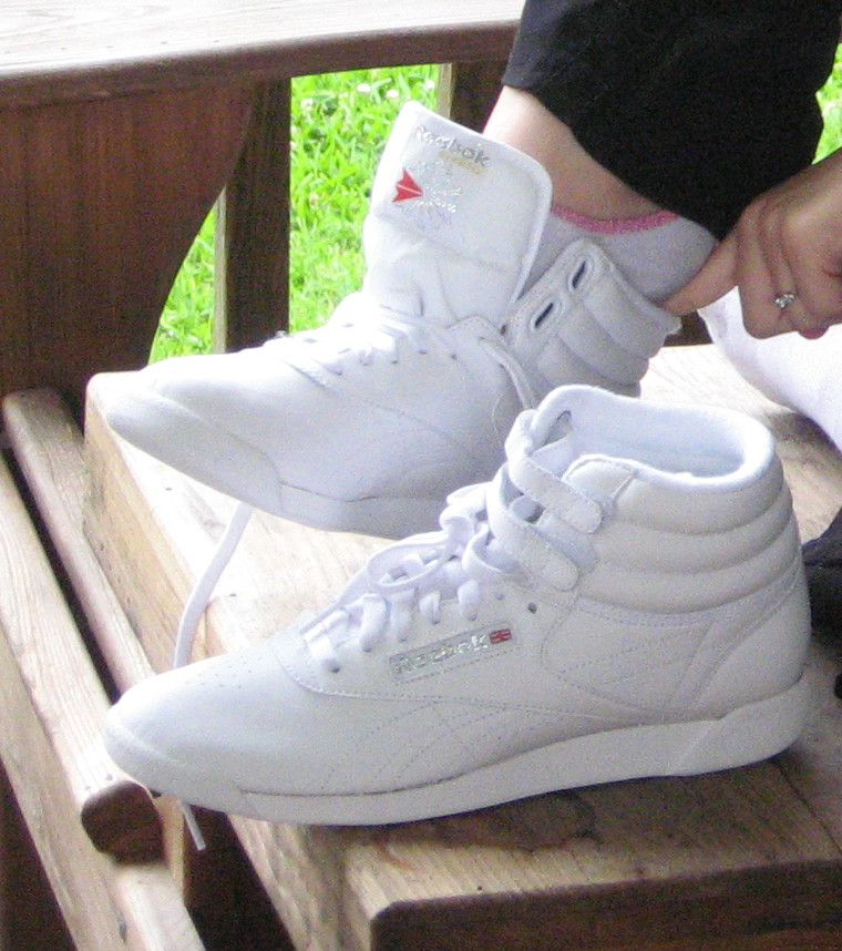 A pair of white Reebok Freestyle hi-tops